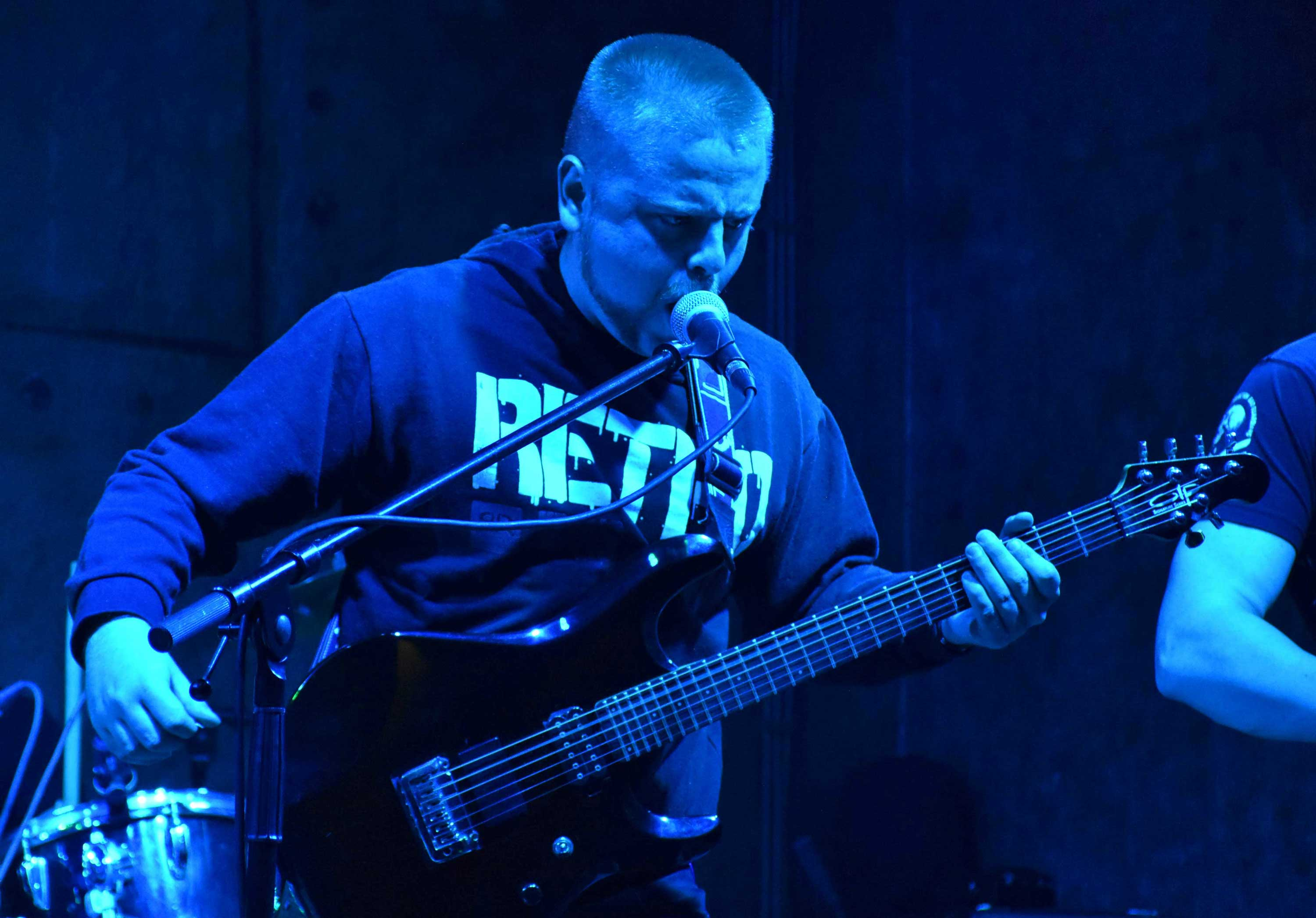 Patrias, heavy metal bend from Smederevo, Serbia